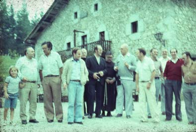 members of Euskaltzainidia, among others: Alfonso Irigoien, Eneko Irigoien, Txillardegi, Xabier Mendiguren Bereziartu, Iratzeder, Jose Mari Satrustegi, Luis Villasante, Jean Haritschelhar and José Luis Lizundia, some time mid-1970s